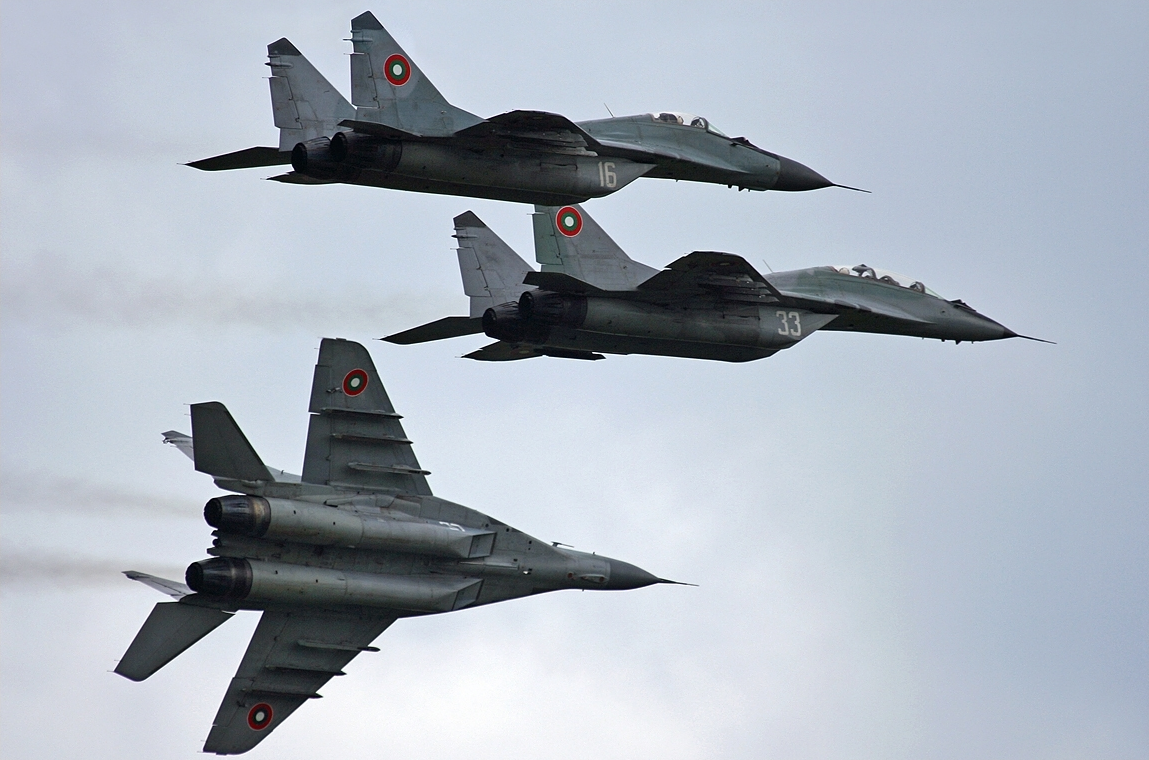 A squadron of three Bulgarian Air Force MiG-29s in flight, photo by Chavdar Garchev